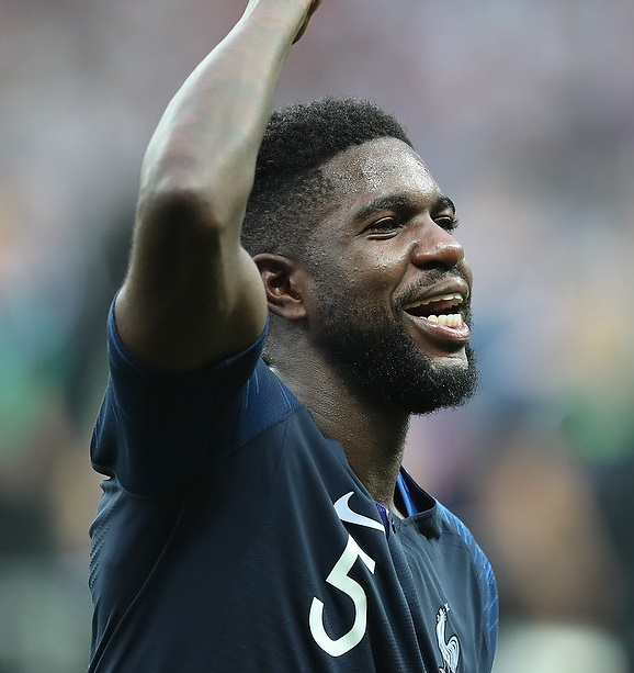 Samuel Umtiti with France celebrating victory over Croatia in the 2018 FIFA World Cup Final